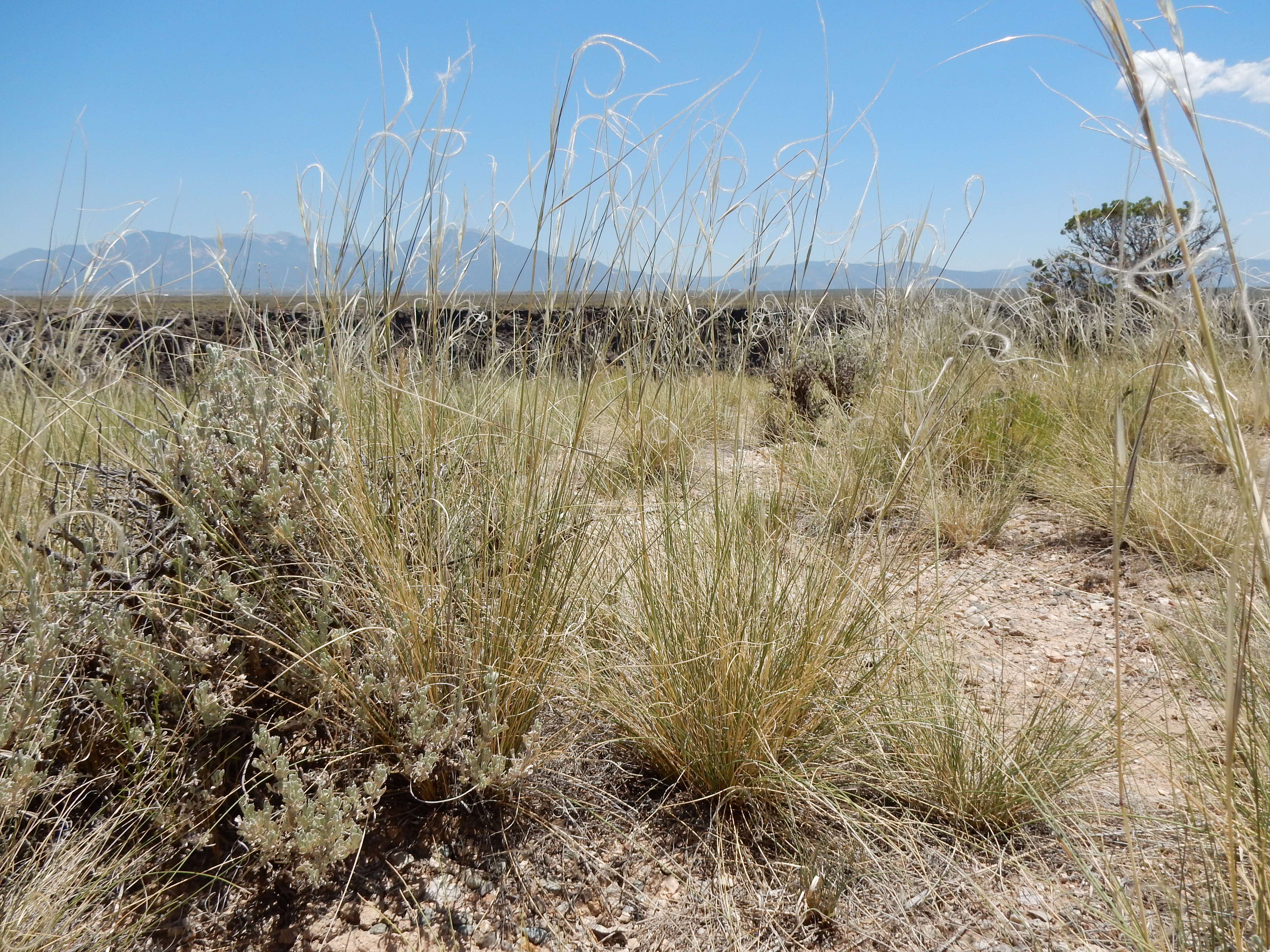 The population variation of Stipa neomexicana and Stipa comata at this site suggests that the distinguishing features of these species, and perhaps all Hesperostipa species, could represent population variation in open arid vegetation of southwestern USA. Stipa neomexicana is distinguished by lemma awns pilose on all segments, the terminal segment with hairs 1–3 mm long. Stipa comata by lemmas usually evenly white-pubescent, sometimes glabrous immediately above the callus and lower ligules often lacerate. The size of the lemmas is often at 15 mm long or longer and the awns often over 90 cm long. This sort of variation at this site also calls into question the distinction of Stipa curtiseta and Stipa spartea relative to both Stipa comata and Stipa neomexicana.